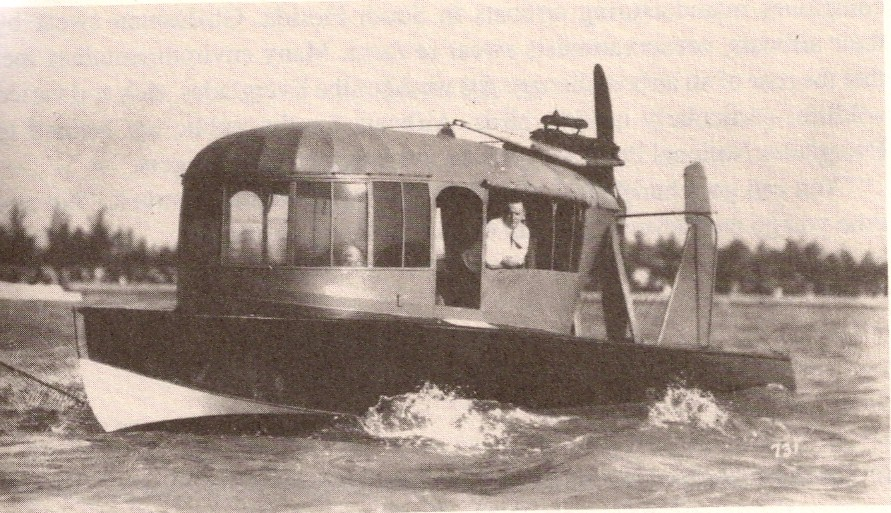 The 1920 Curtiss "Scooter" airboat, a 6-passenger, closed-cockpit, propellor-driven motorboat powered by an aircraft engine that could slip through the grassy wetlands at 50 mph. Built by aircraft engineer Glenn Curtiss, the "Scooter" is sometimes claimed to be the first airboat